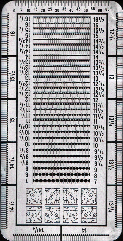 Odontometer